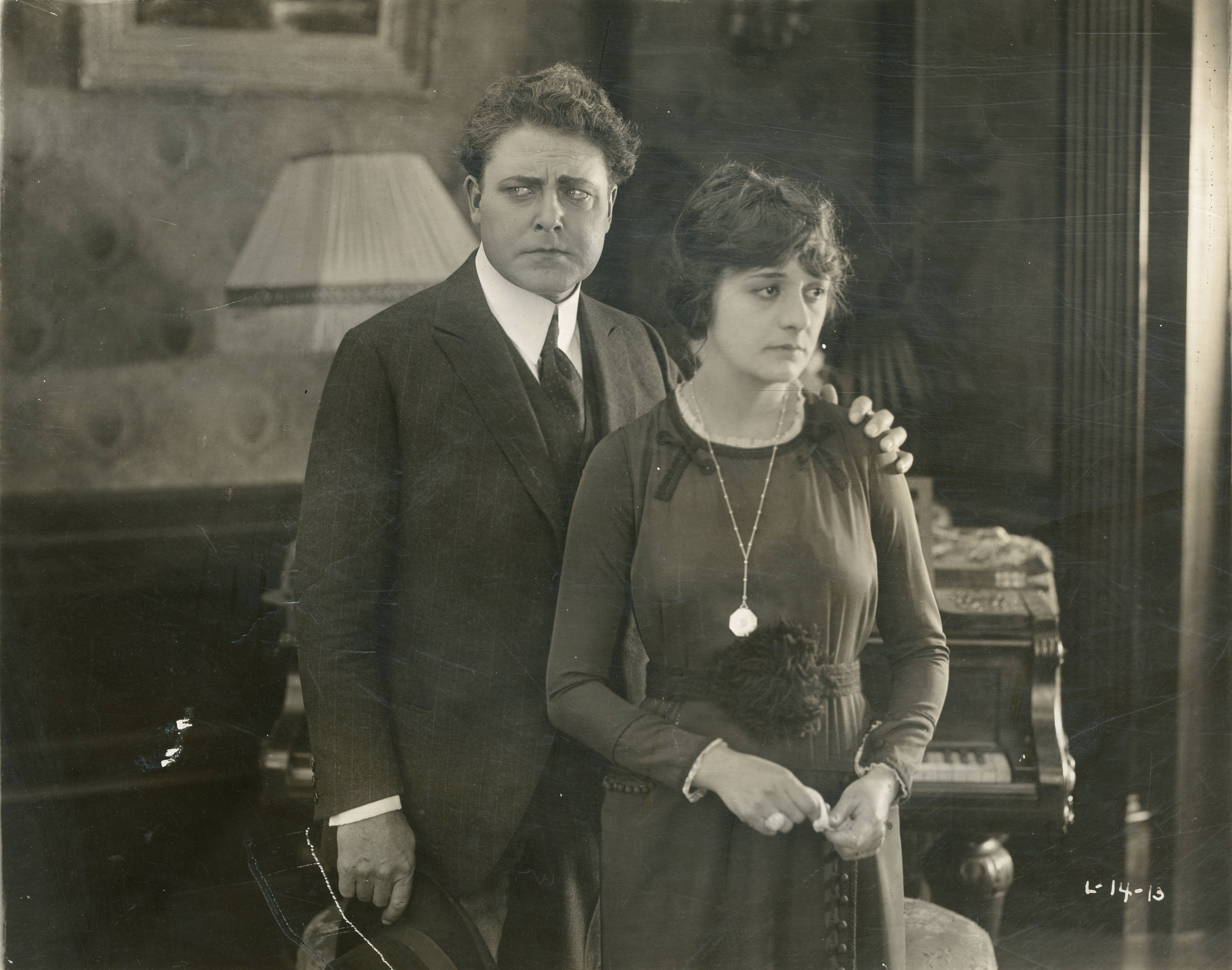 A scene from the American drama film For Freedom (1918) with William Farnum. Dated Jan. 9, 1919. From the back: "He went to Prison for His Stater -- In his latest de luxe production, For Freedom, William Farnum, the William Fox star, is seen in the role of a man who goes to prison to save his sister's good name. In prison he raises the question whether a convict has the right to fight for his country. As portrayed by Farnum, the hero of For Freedom, will rank in motion picture history beside this same actor's famous characterization of Jean Valjean in Les Miserables." Subjects: motion pictures, actors